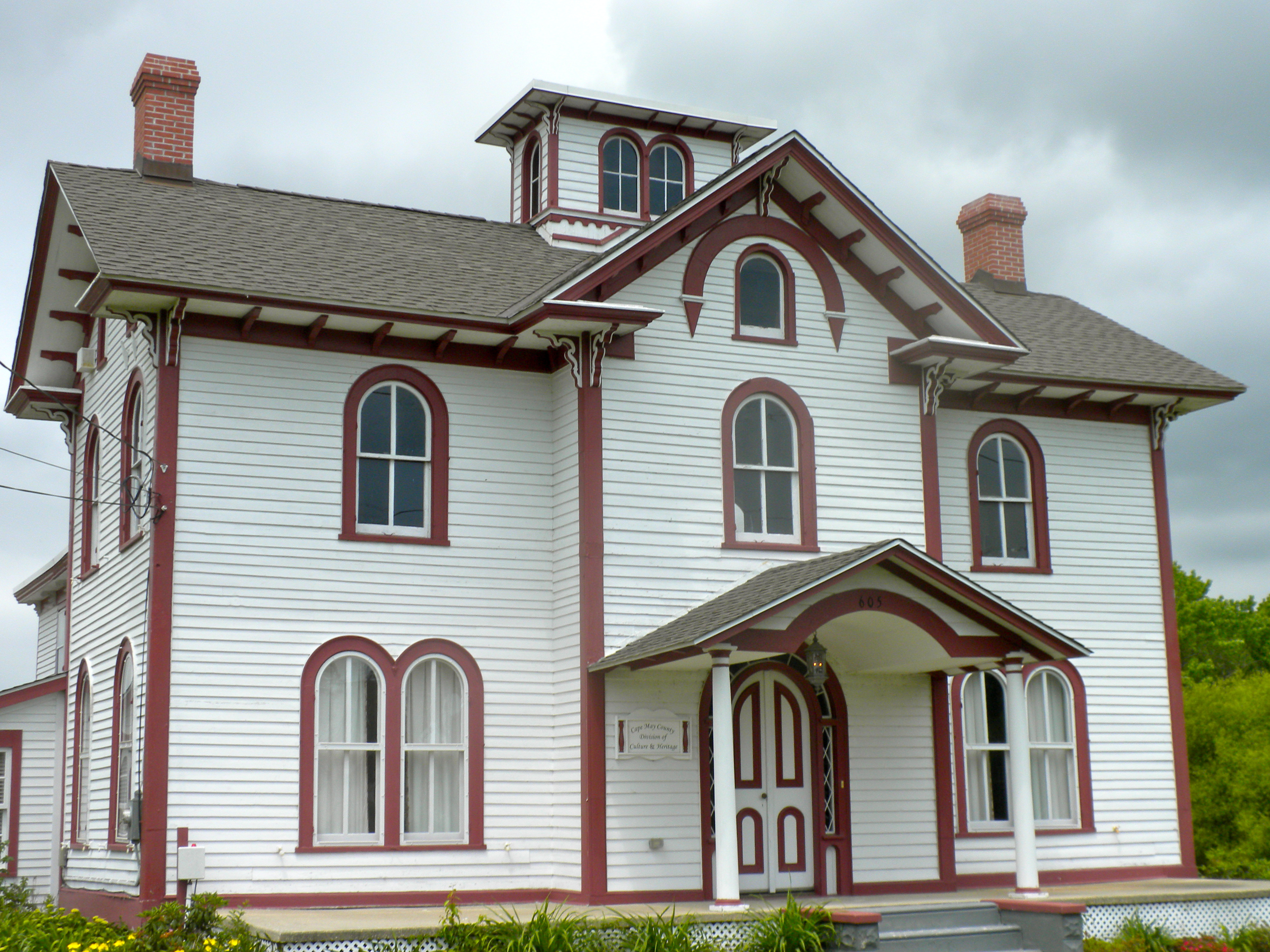 Thomas Beesley Jr. House on NRHP since February 12, 1998. At 605 NJ 9 N in Middle Township, Cape May County, New Jersey, USA, near county park